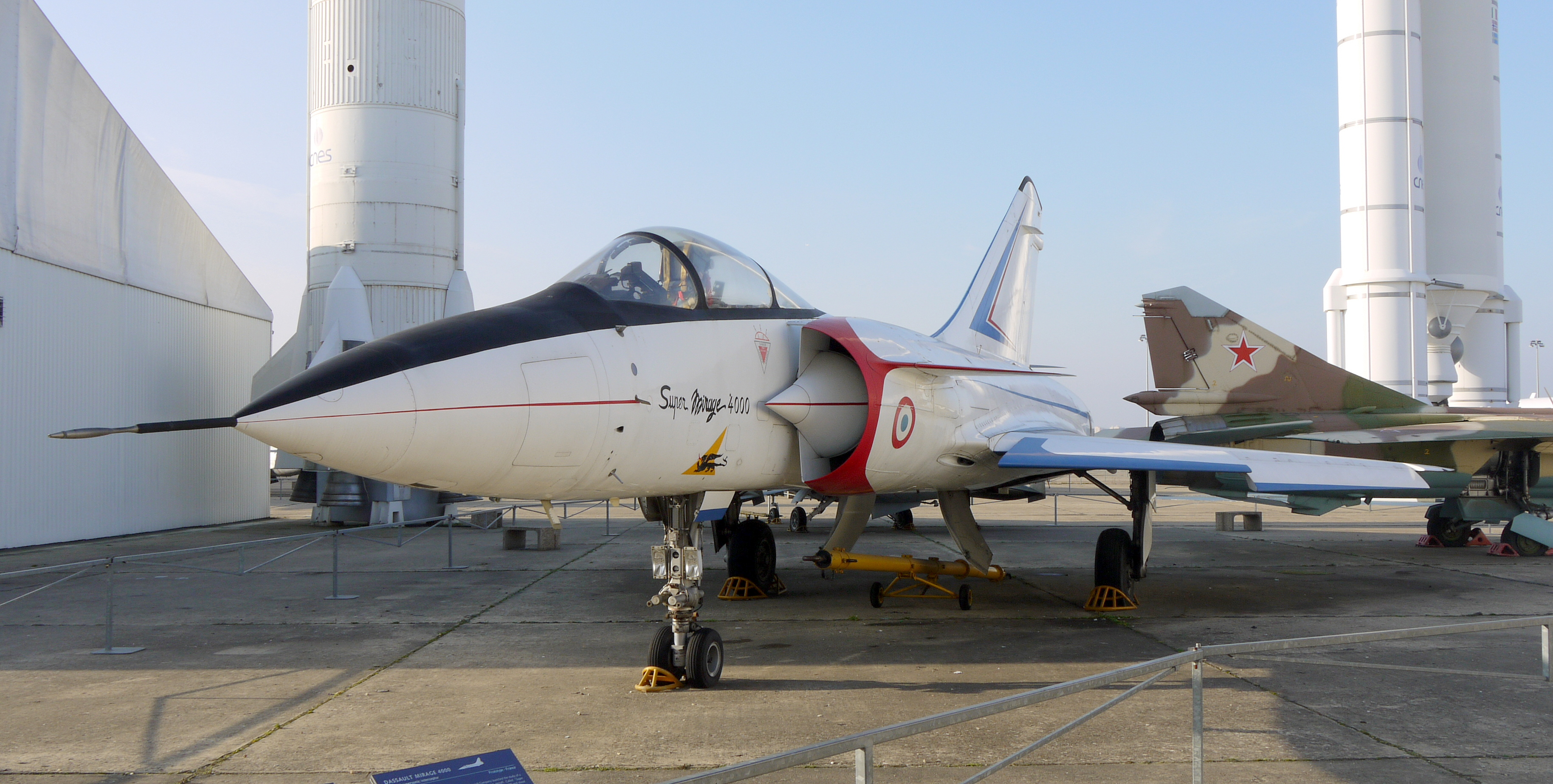 Prototype jet fighter aircraft Mirage 4000 (1979), Musée de l'Air et de l'Espace, Paris Le Bourget (France)